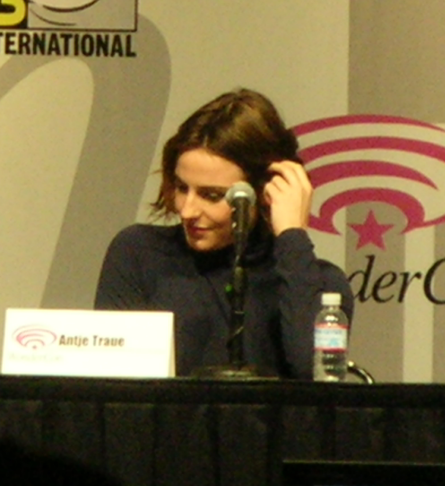 Antje Traue at a Pandorum panel discussion at WonderCon 2009.